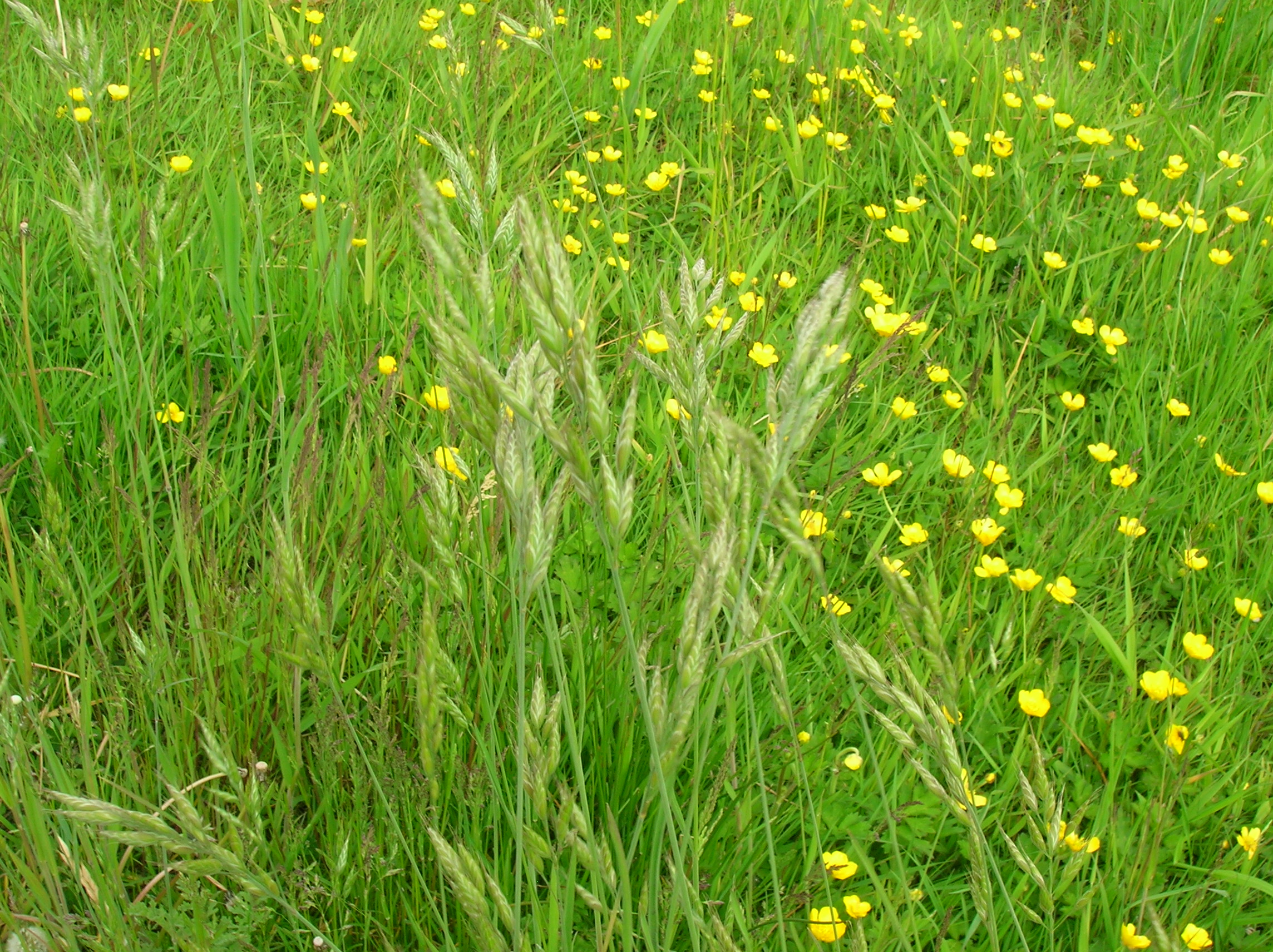 Bromus commutatus, Meadow Brome, road verge, Spier's, Ayrshire, Scotland.